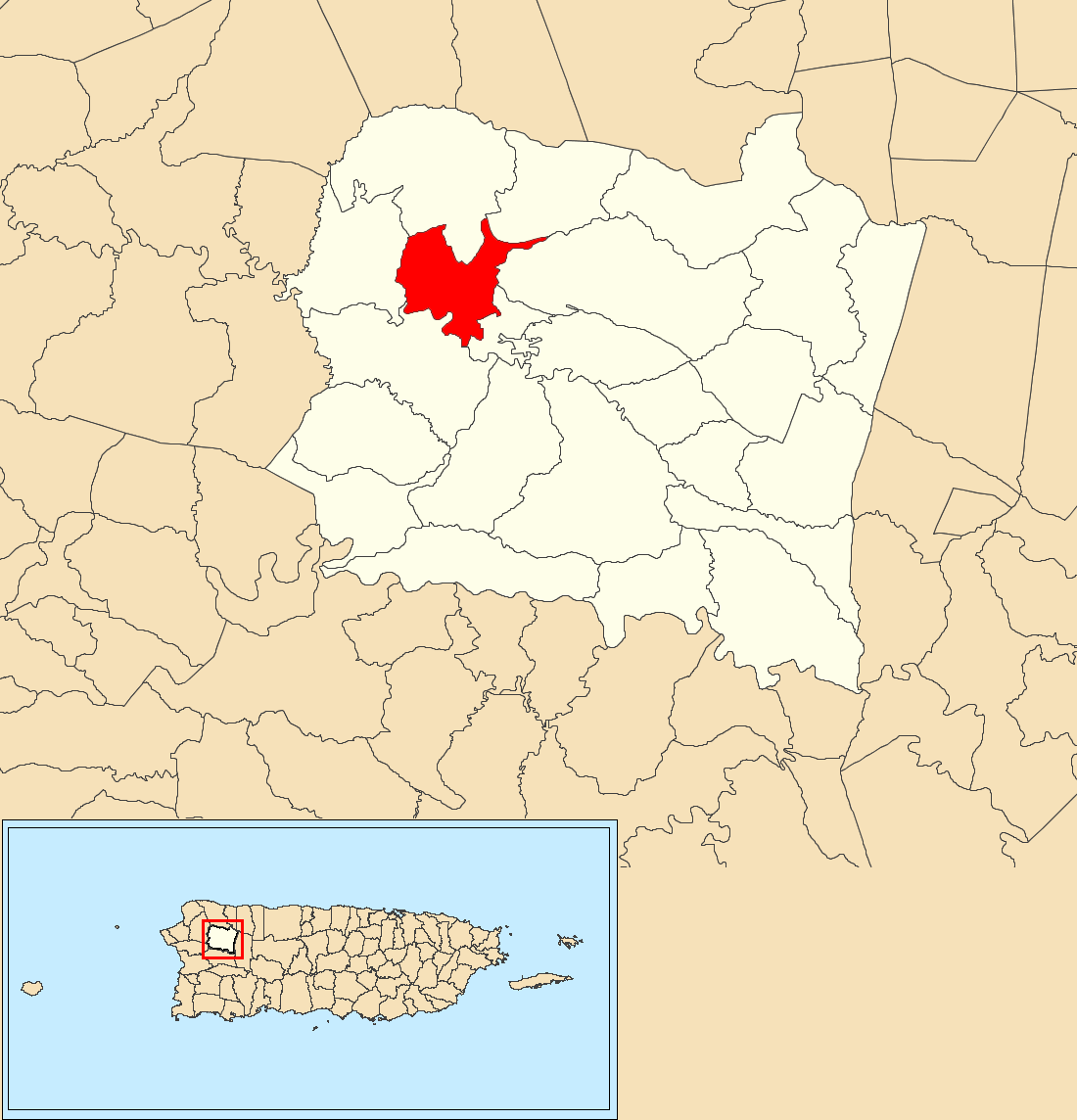 Guatemala, San Sebastián, Puerto Rico locator map